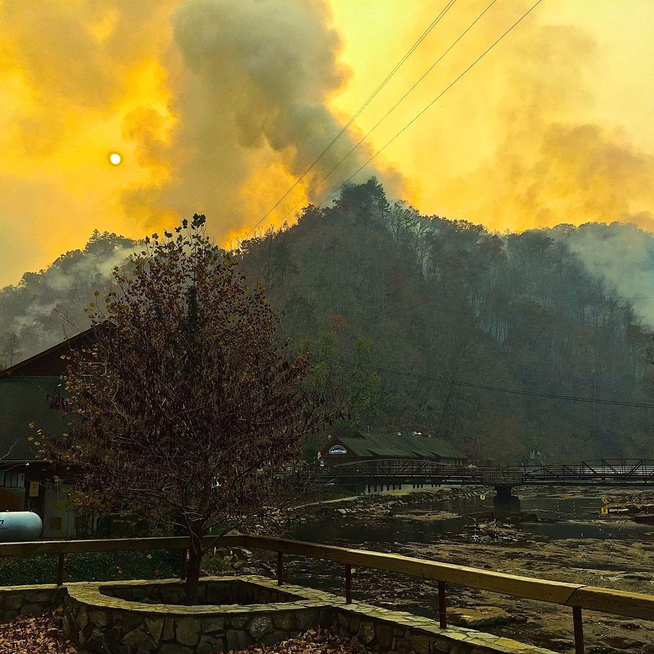 Smoke from the Tellico Fire is visible from the Nantahala Outdoor Center November 12, 2016